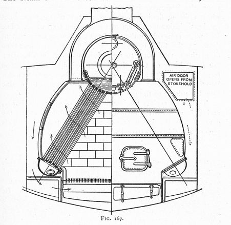 Yarrow boiler, end view in hull (Heat Engines, 1913).jpg